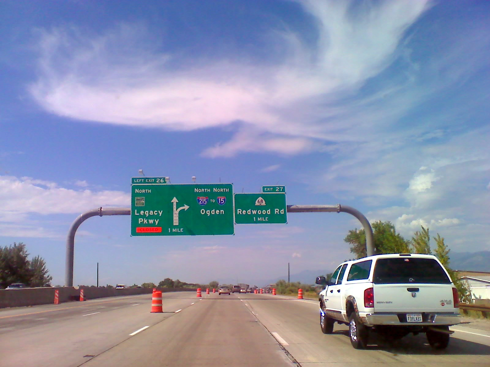 I-215 in Utah approaching Legacy Parkway and Redwood Road (SR-68)